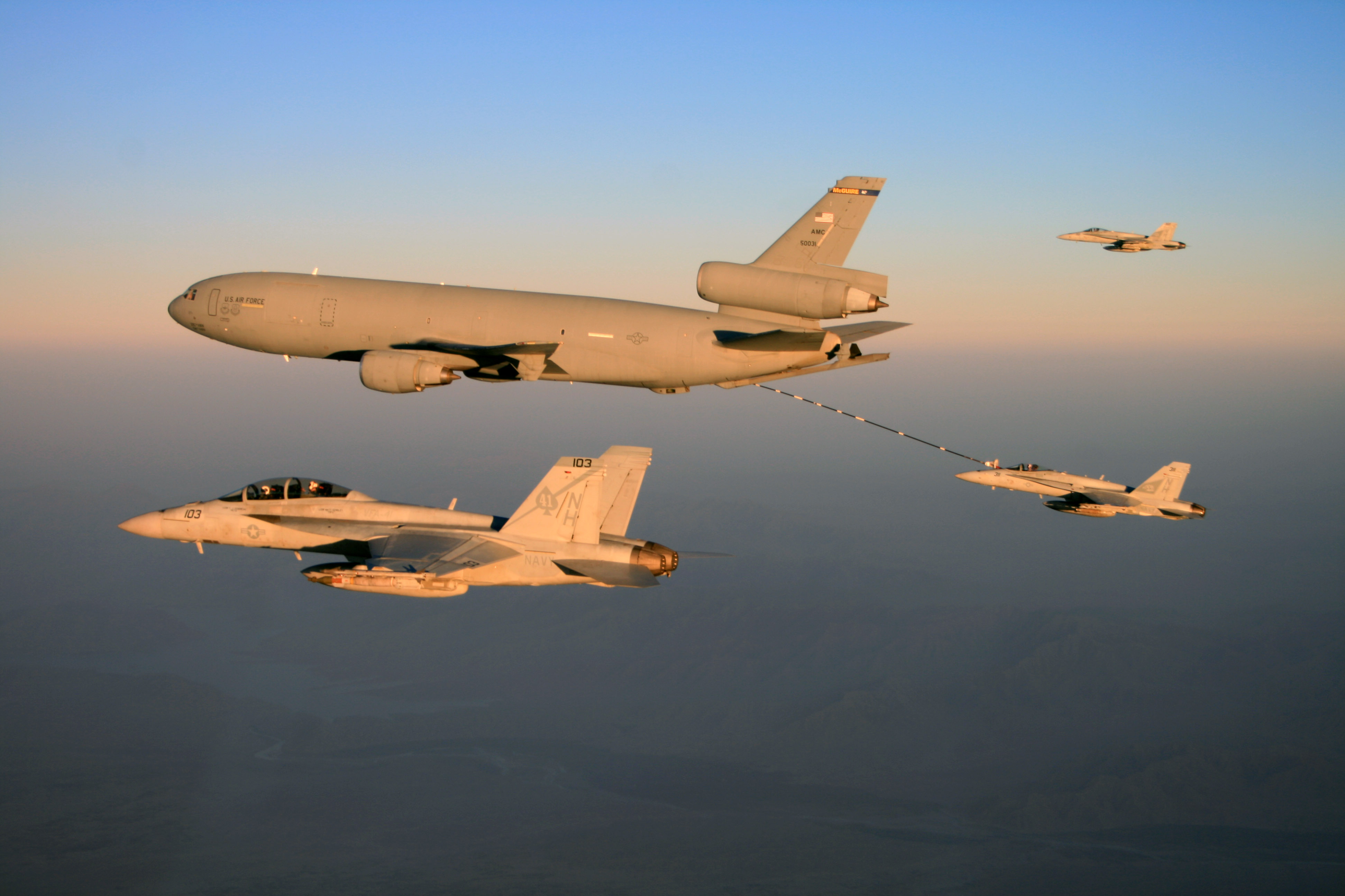 AFGHANISTAN (Oct. 13, 2009) F/A-18 strike fighters, assigned to the Black Aces of Strike Fighter Squadron (VFA) 41 and the Warhawks of VFA-97 embarked aboard the aircraft carrier USS Nimitz (CVN 68), refuel from an Air Force KC-10 Extender from the 305th Air Mobility Wing (AMW). The Nimitz Carrier Strike Group is deployed to the U.S. 5th Fleet area of responsibility. (U.S. Navy photo by Lt. j.g. Kyle Terwilliger/Released)